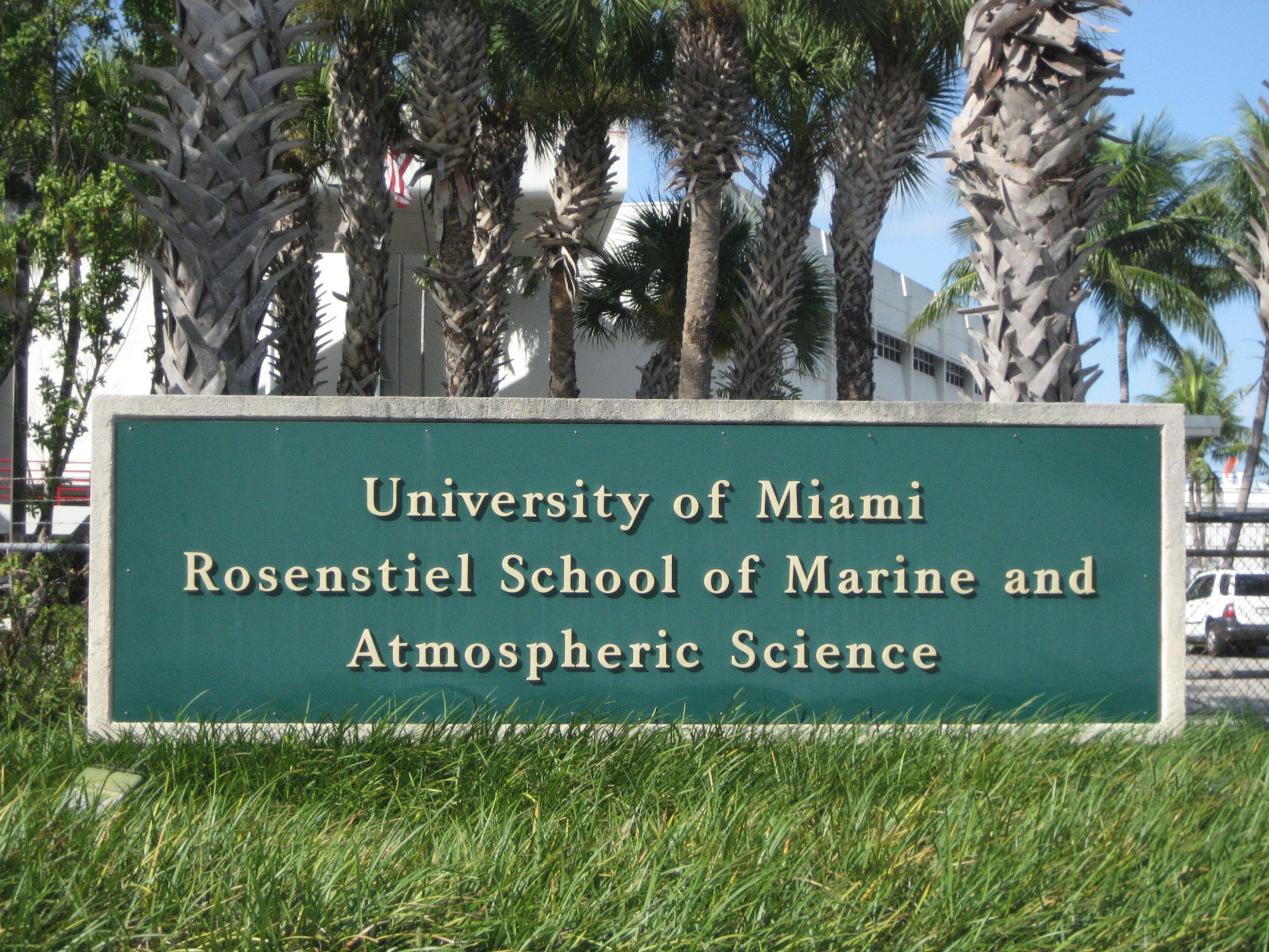 Rosenstiel School of Marine and Atmospheric Science, entrance plate